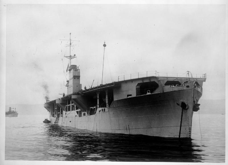 The MV Rapana at anchor. (The original Imperial War Museum caption describes the ship as "HMS Rapana".)